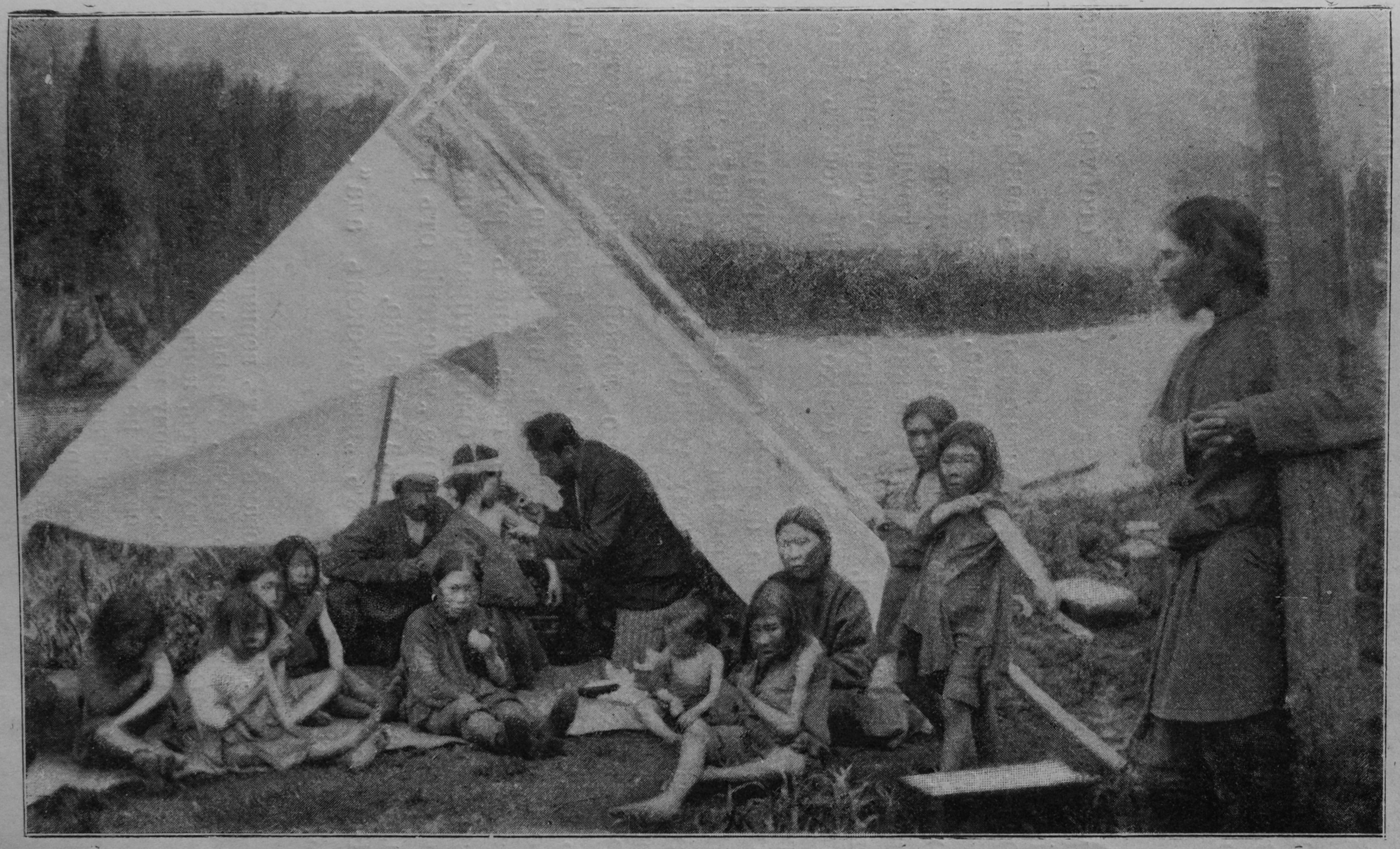 Native people of Sakhalin. Nivkh tent